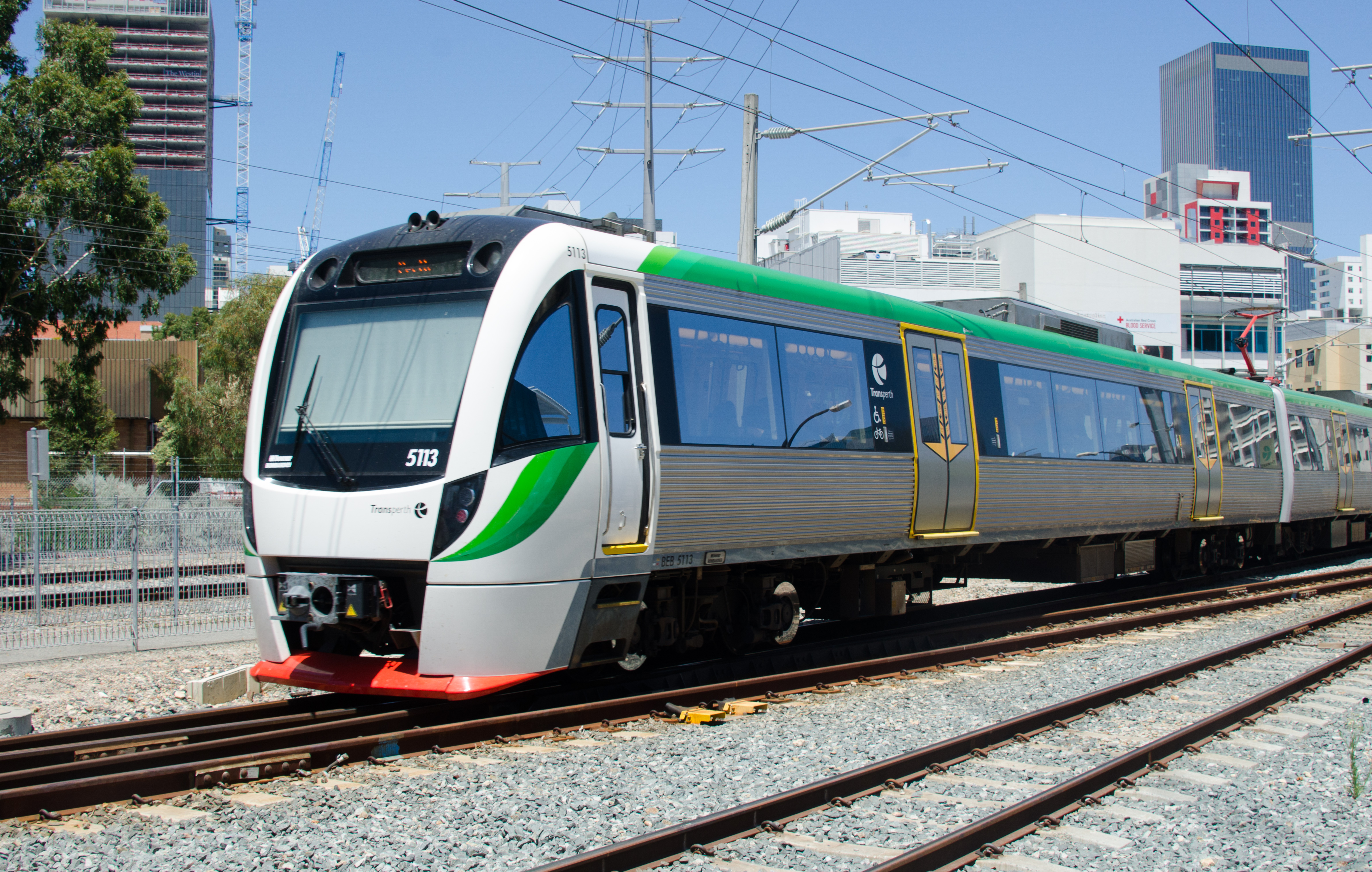 Transperth B-Series train in Perth